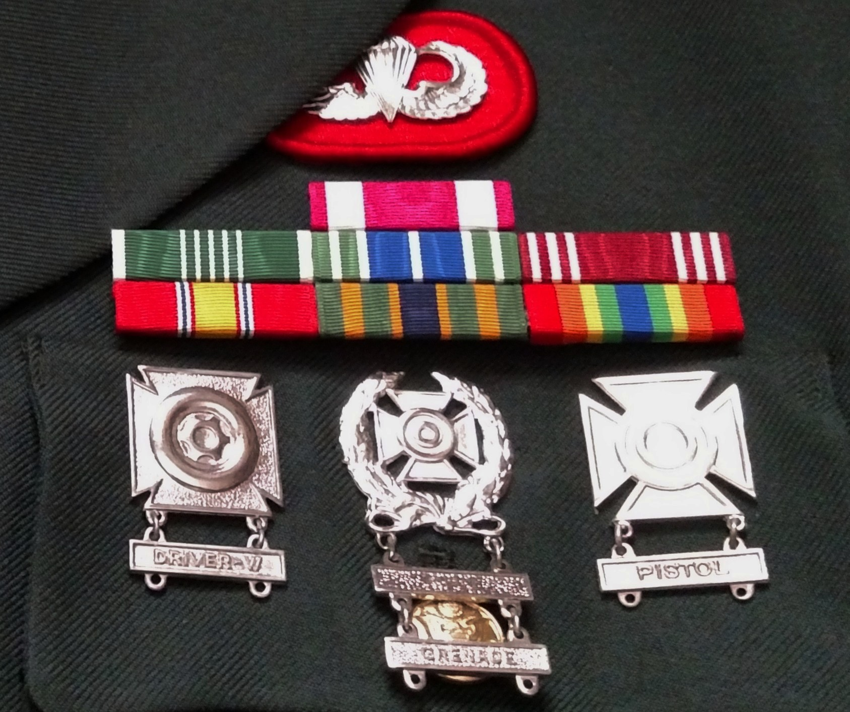 How the U.S. Army Driver and Mechanic Badge—with Wheeled Vehicles Qualification Bar—is worn